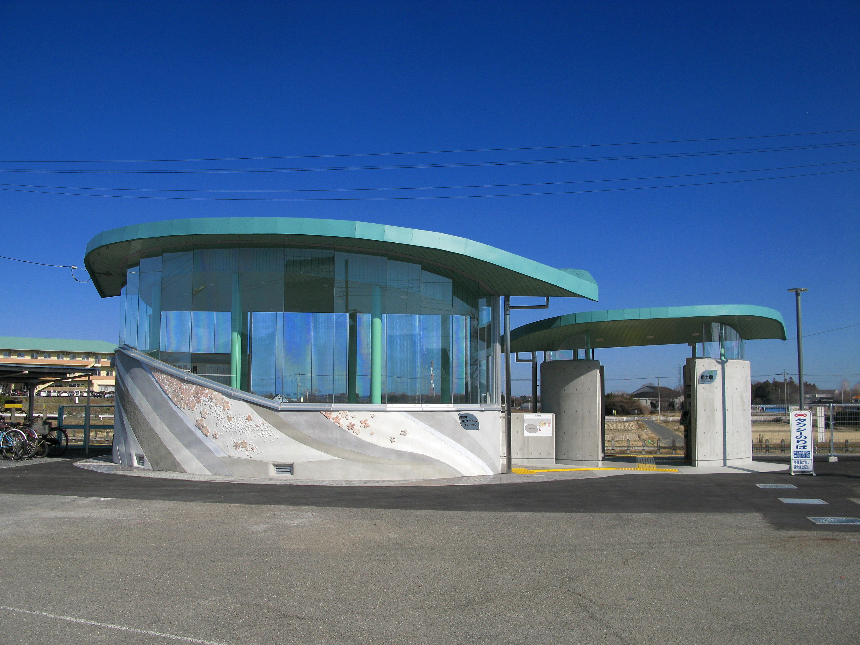 Yōdo Station entrance, Yorii, Saitama, Japan